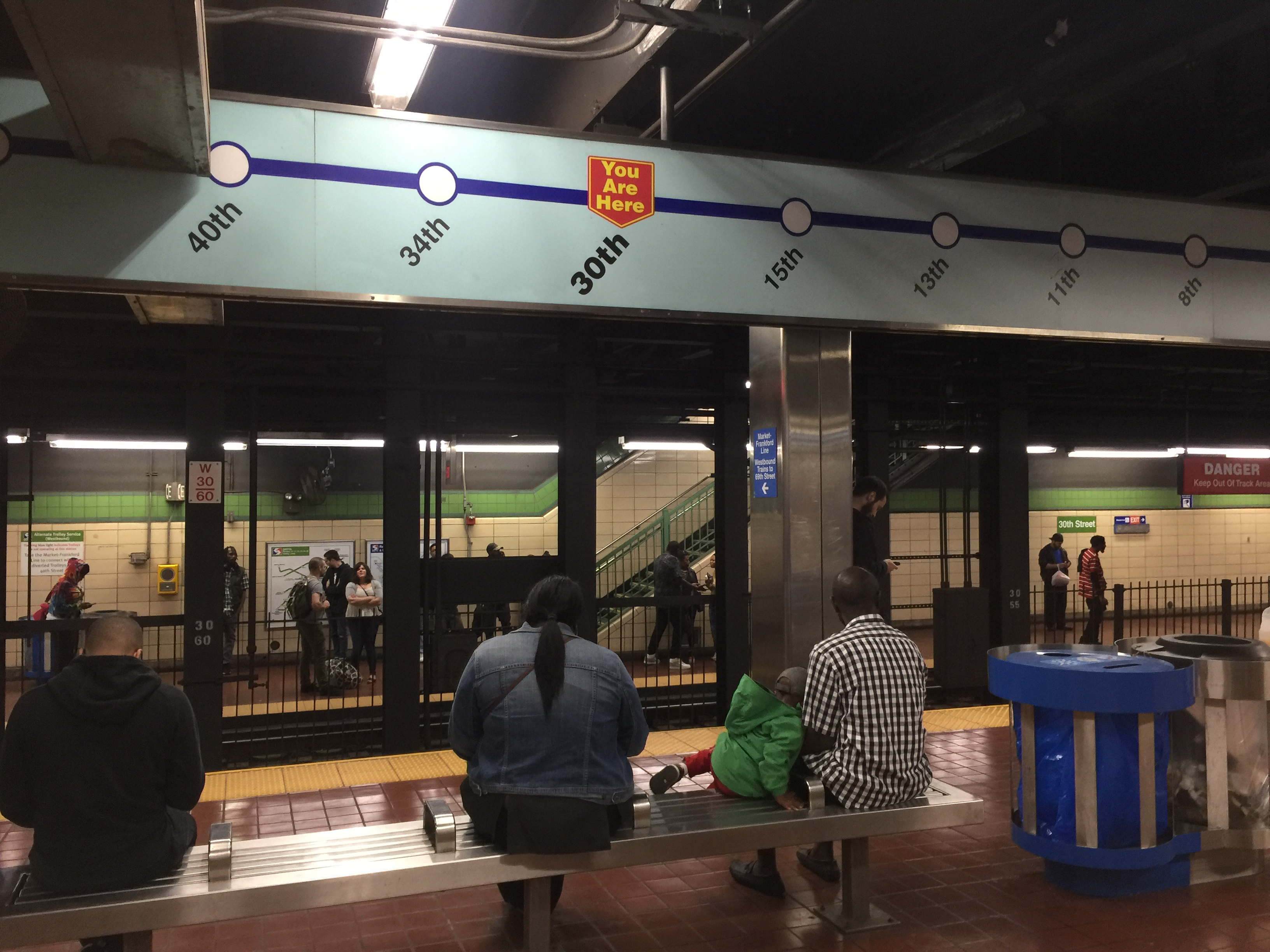 30th Street station MFL platform